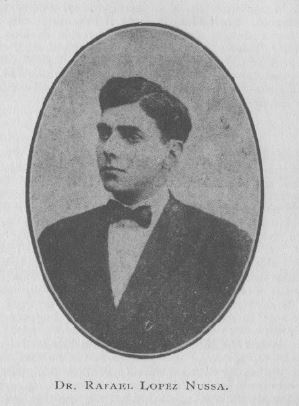 Rafael López Nussa, Médico de Ponce, Puerto Rico (DP24)